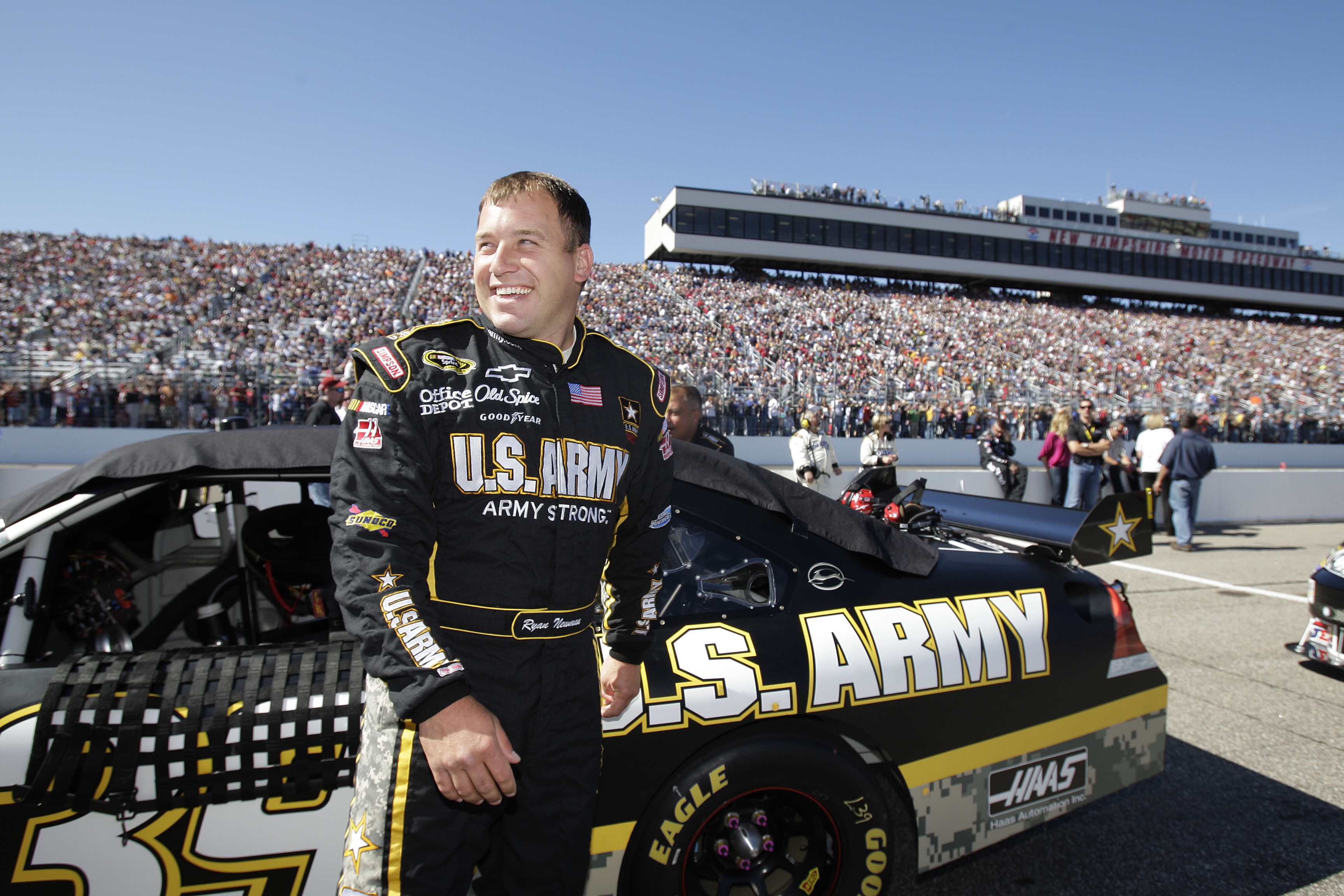 Ryan Newman stands beside his Number 39 Army Chevrolet Impala Sunday at the New Hampshire Motor Speedway. Newman finished the Sylvania 300, the first Chase for the Sprint Cup, in seventh place.